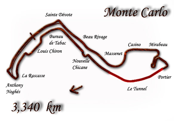 Diagram of the Monte Carlo Circuit following changes made in 2003. Used for Monaco Grands Prix from 2003 to 2006.